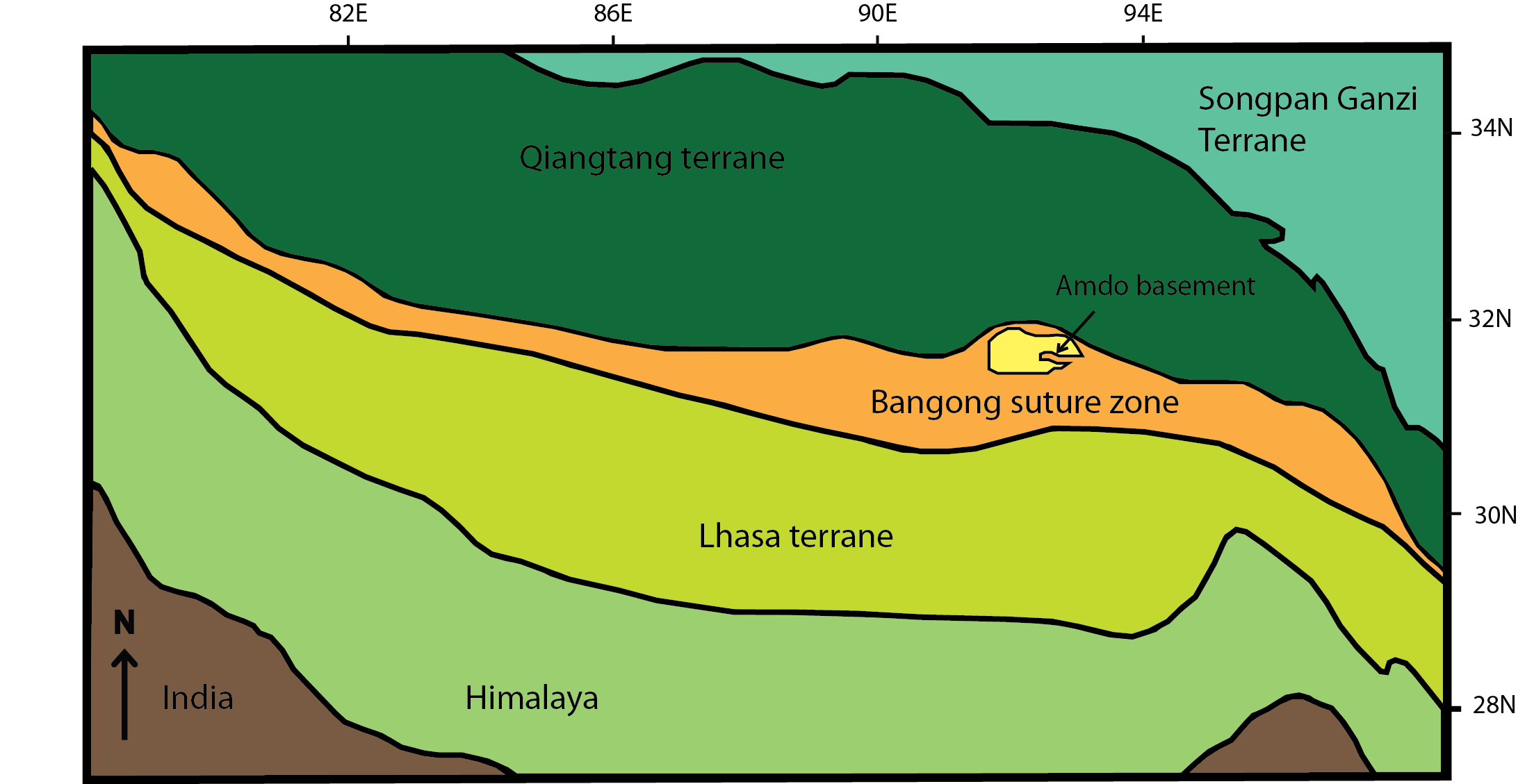 General map of central and southern Tibet featuring the Bangong suture and surrounding terranes. Map is modified from Guynn et al., 2011.